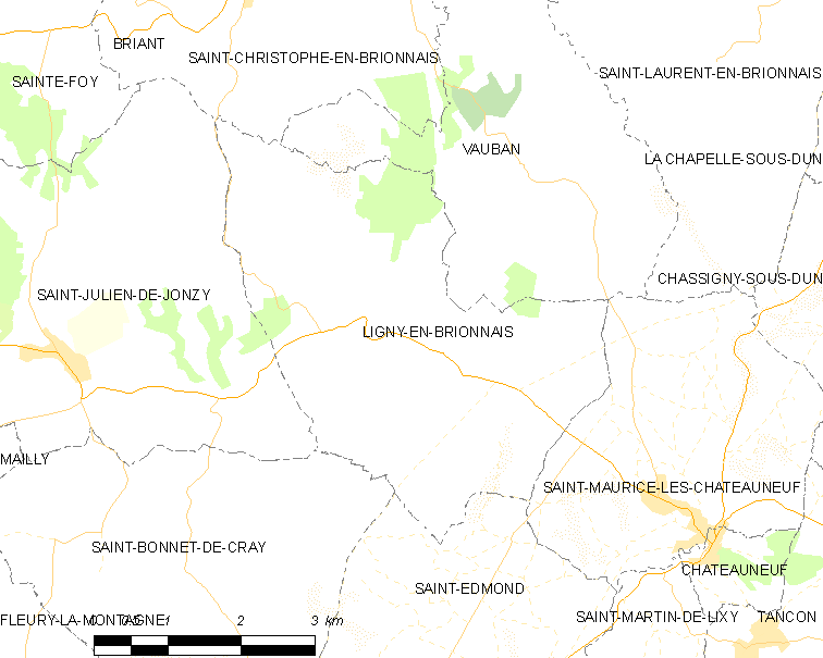 Map of French municipality